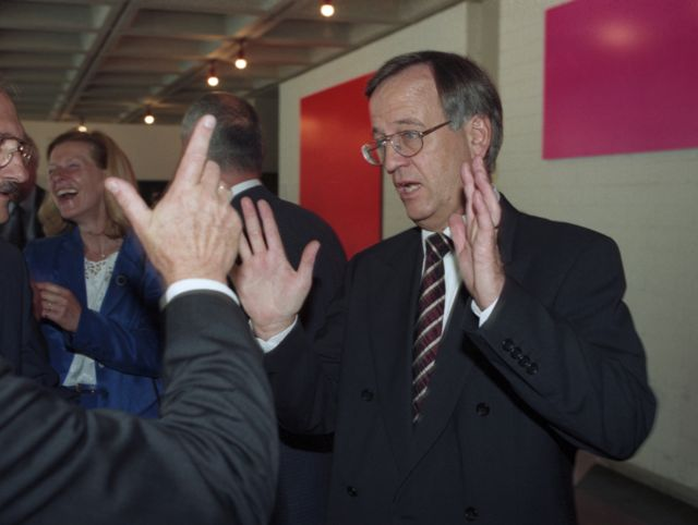 Heinrich von Pierer, 1994 in München